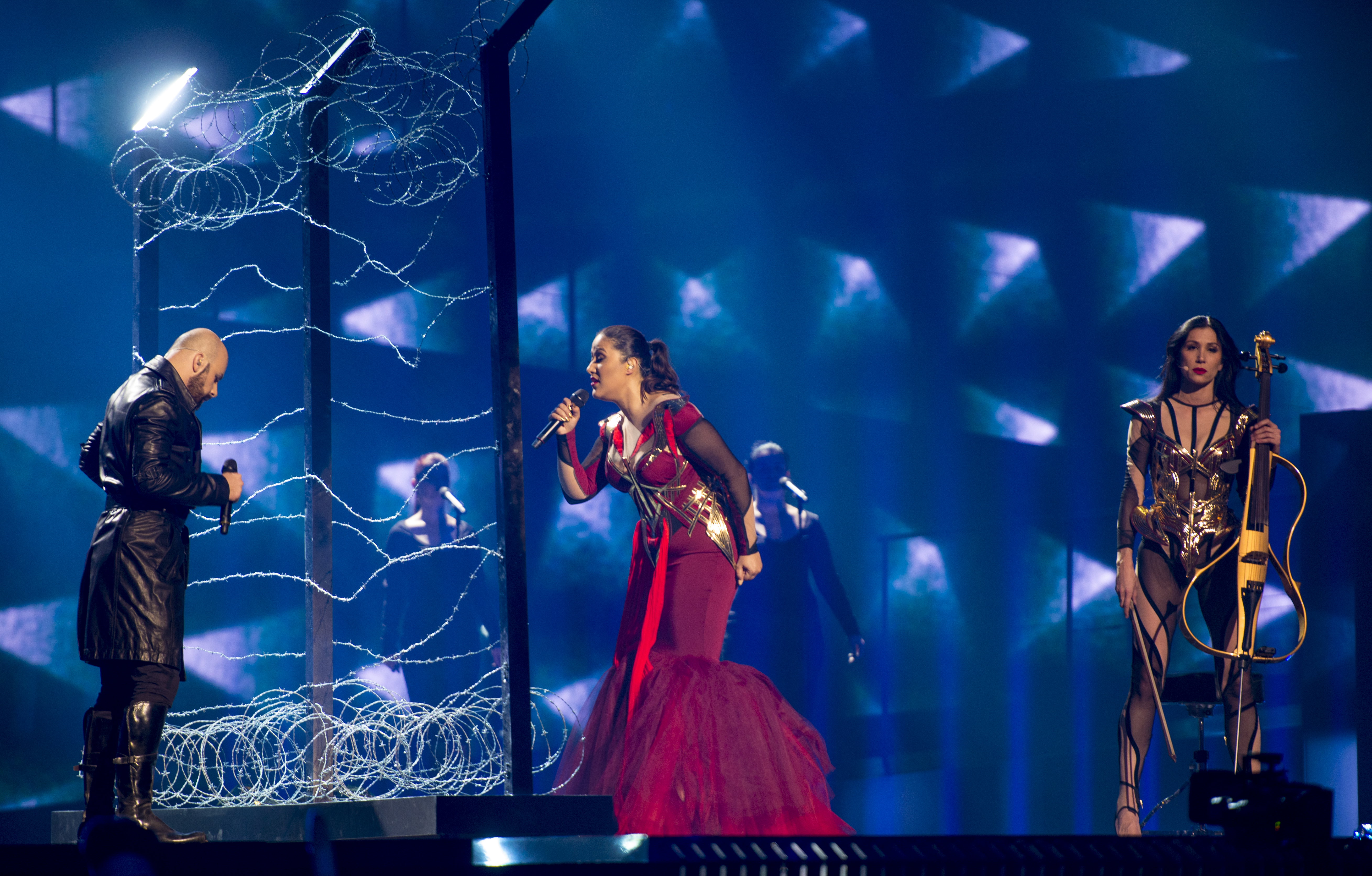 Dalal & Deen feat. Ana Rucner and Jala representing Bosnia and Herzegovina with the song "Ljubav je" during a rehearsal before the first semi final of the Eurovision Song Contest 2016 in Stockholm. (Help translate this text)